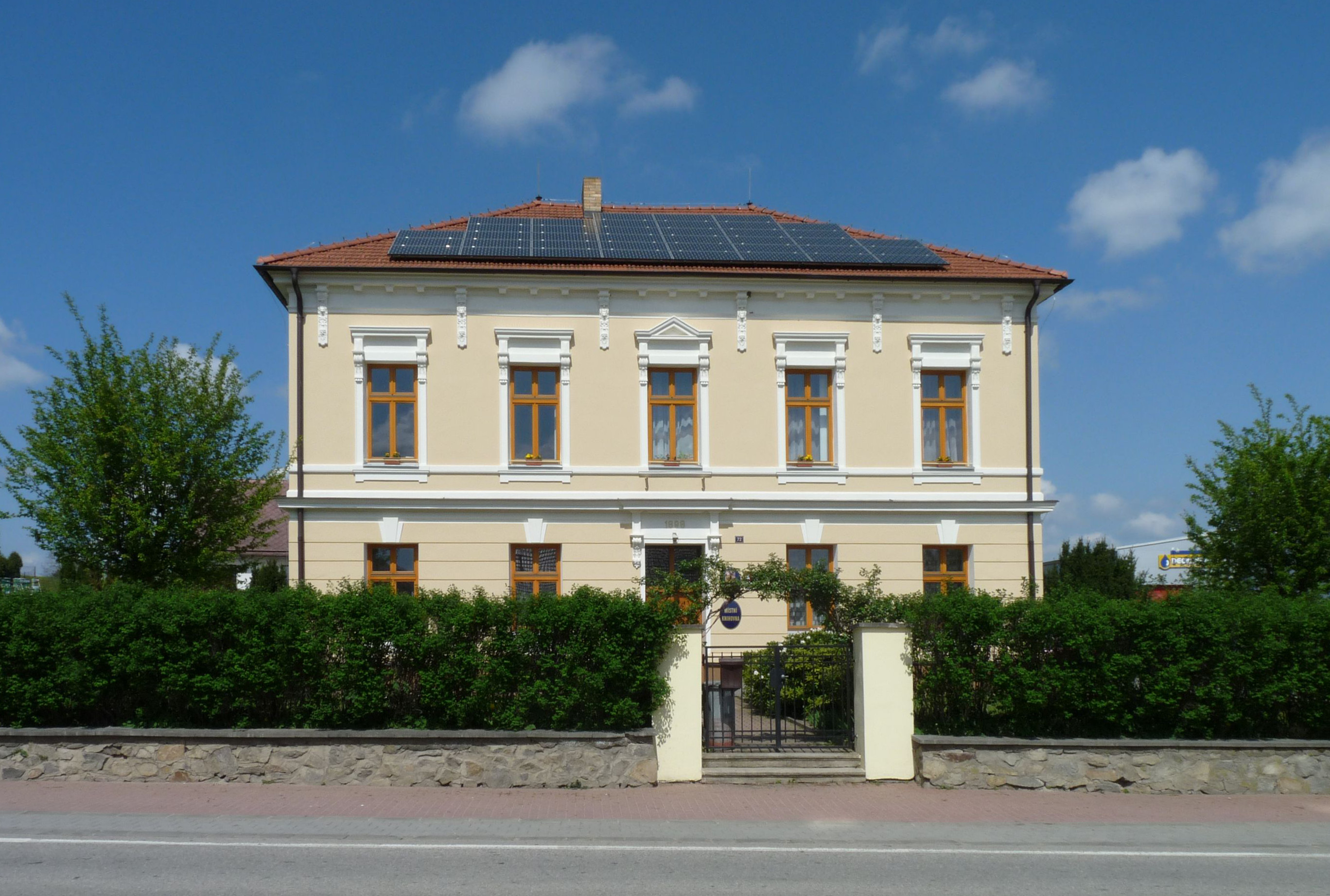 Municipal office building in the municipality of Homole, České Budějovice, South Bohemian Region, Czech Republic.